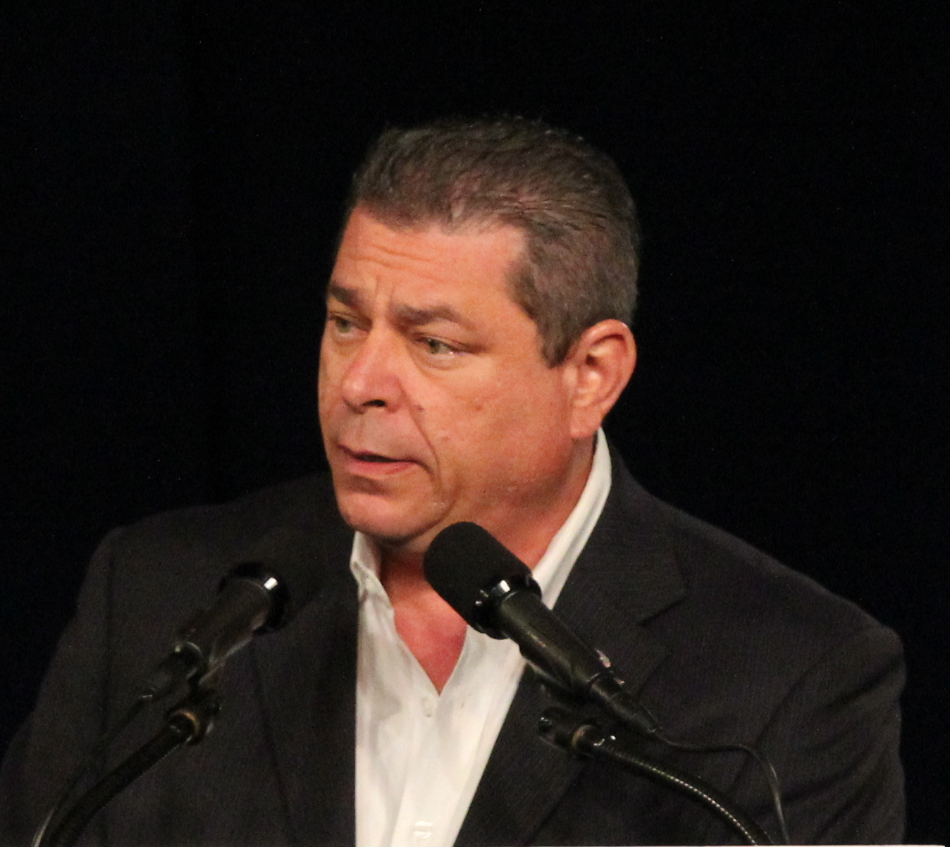 Eric C. Bauman introducing Joe Biden and Pete Aguilar at Colton High School in Colton, California on November 1, 2014